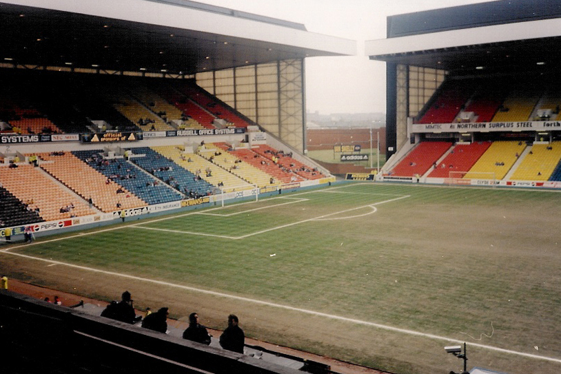 Ibrox Stadium, pictured prior to a match between Rangers and Raith Rovers in 1994.